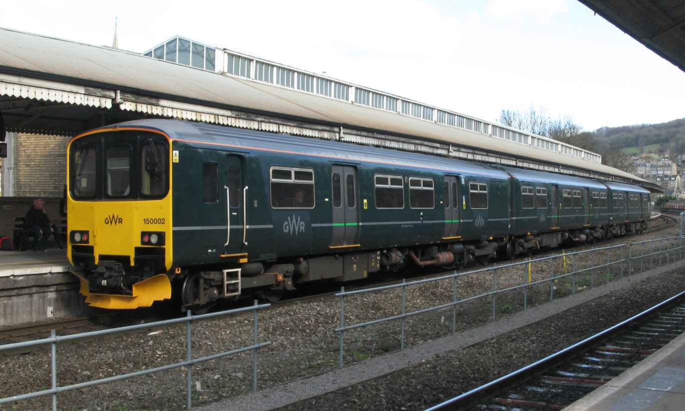 Bristol is short of air-conditioned class 158s today so has deployed suburban 150002 on this Portsmouth service. It is seen at Bath Spa.